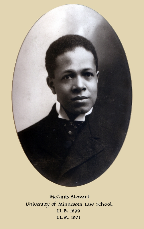 McCants Stewart (1877 - 1919), first African American lawyer in Oregon. This photo is on display at the University of Minnesota Law School's Law Library, where Stewart, as noted in the frame, was a dual graduate; he was the first African American LL.M. graduate of that institution.